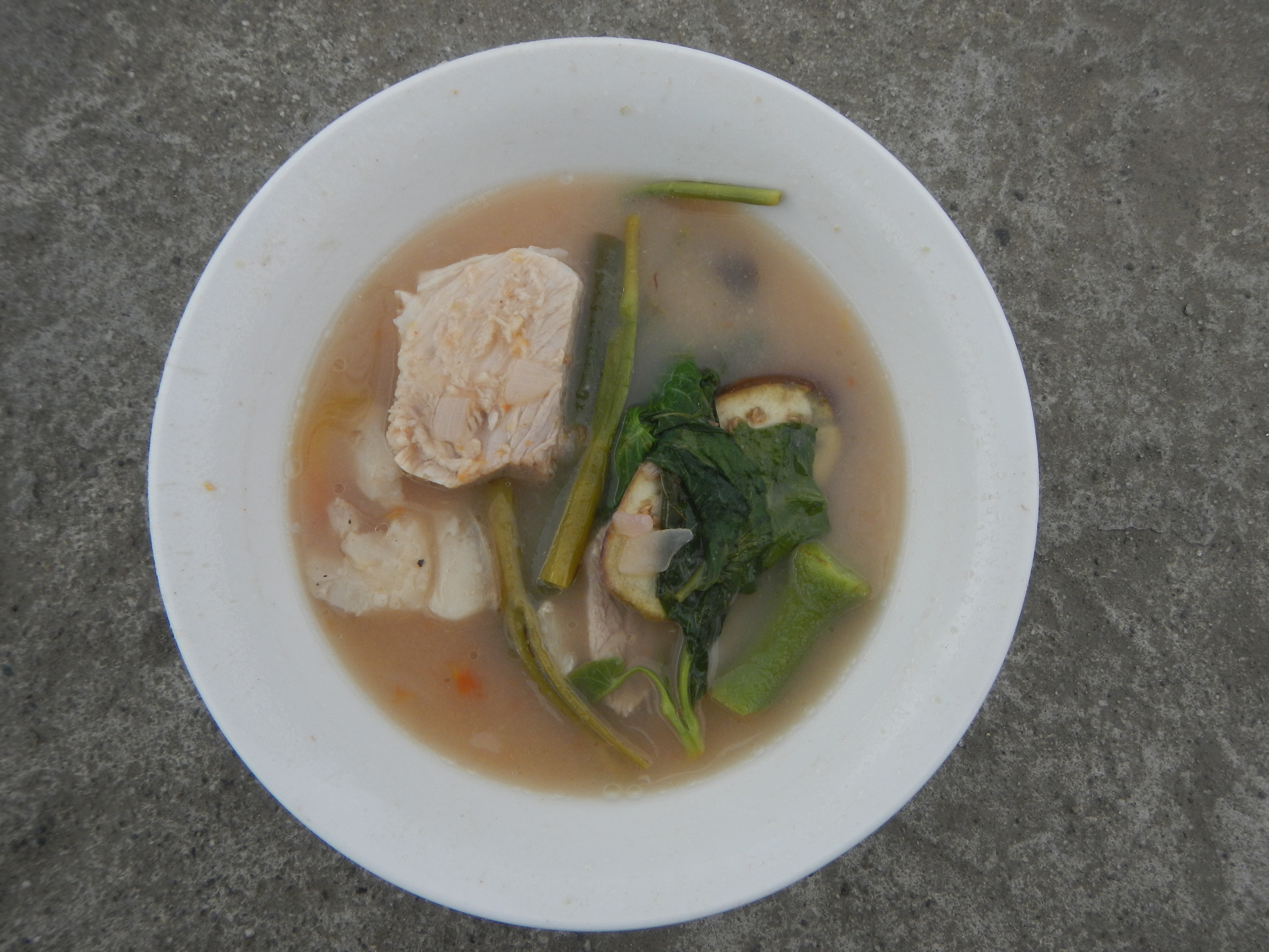 Cuisine of the Philippines, special foods in Pat Special Palabok Foodhaus Barangay Ilang-Ilang, Guiguinto, Bulacan, Bulacan province along MacArthur Highway or Manila North Road (Note: Judge Florentino Floro, the owner, to repeat, Donor Florentino Floro of all these photos hereby donate gratuitously, freely and unconditionally all these photos to and for Wikimedia Commons, exclusively, for public use of the public domain, and again without any condition whatsoever).